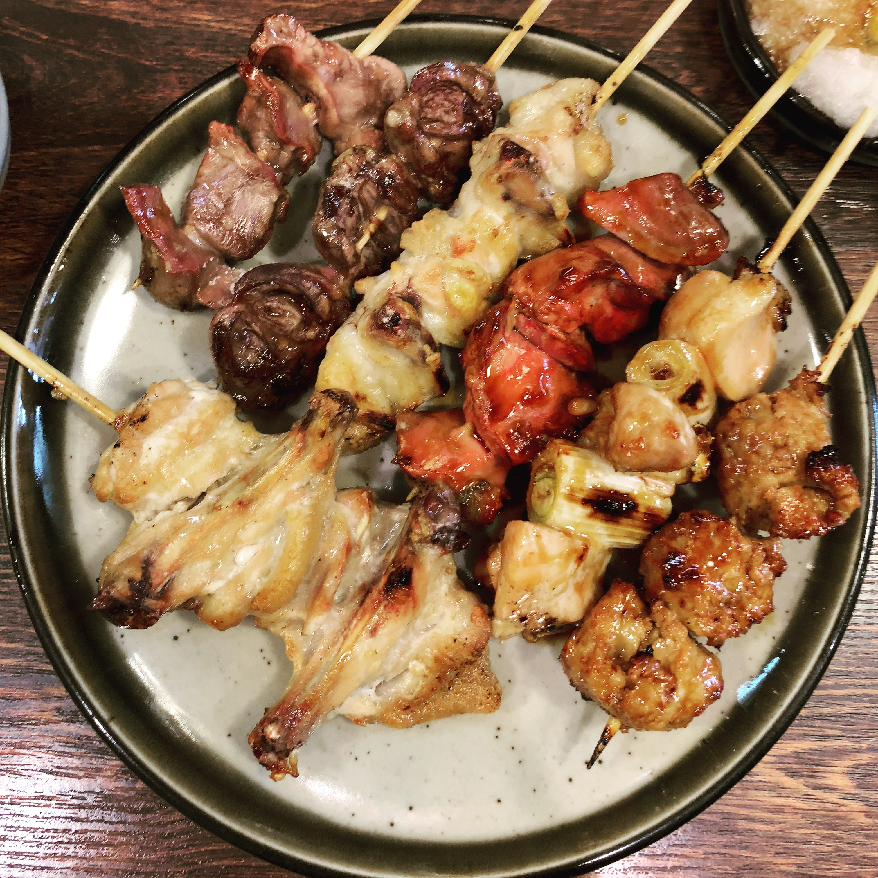 Japanese food by Naoki Nakashima